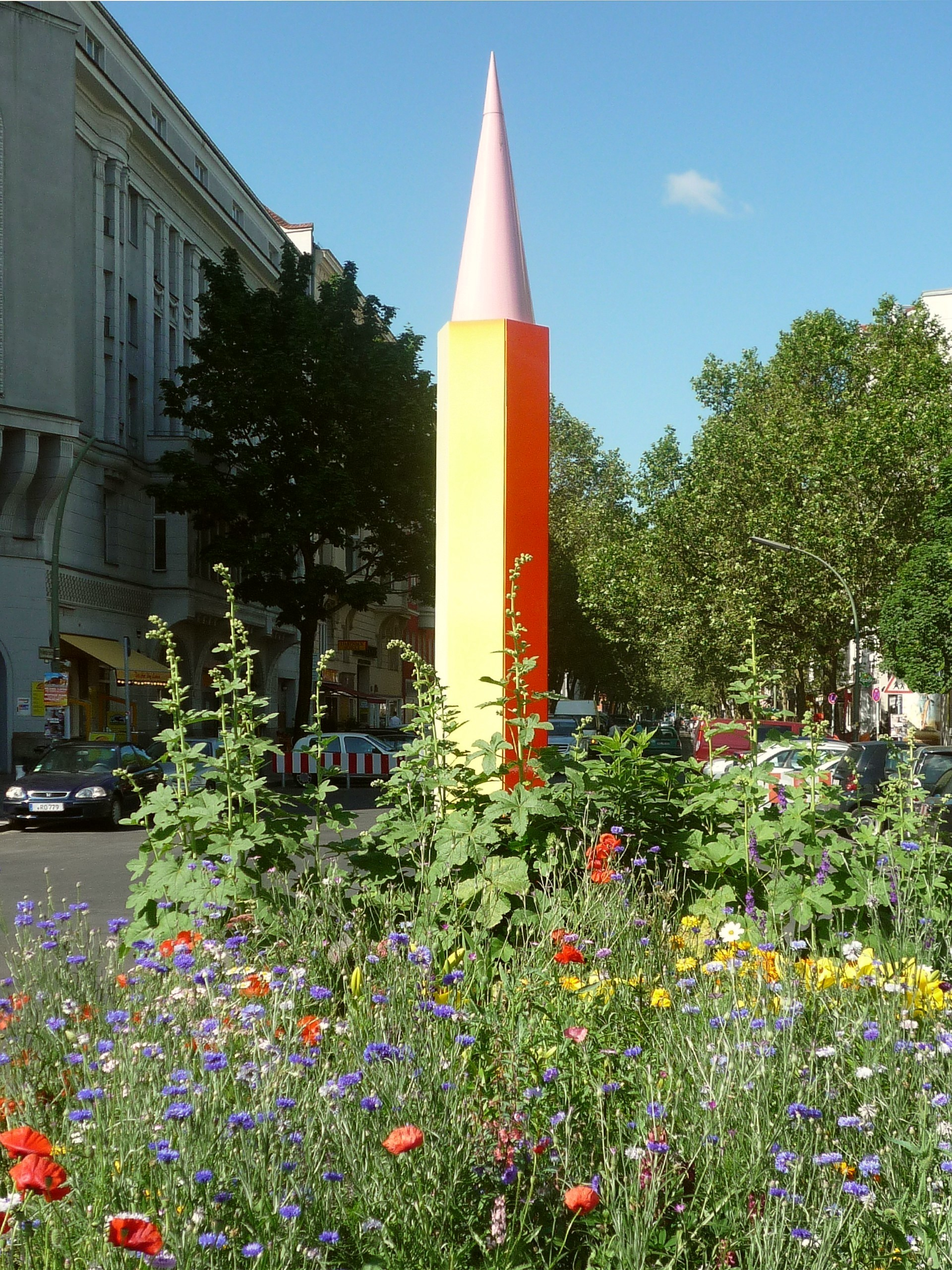 The "Regenbogenstele" (rainbow-column) at Nollendorfplatz in Berlin-Schöneberg. Artist: Salomé (Wolfgang Ludwig Cihlarz).